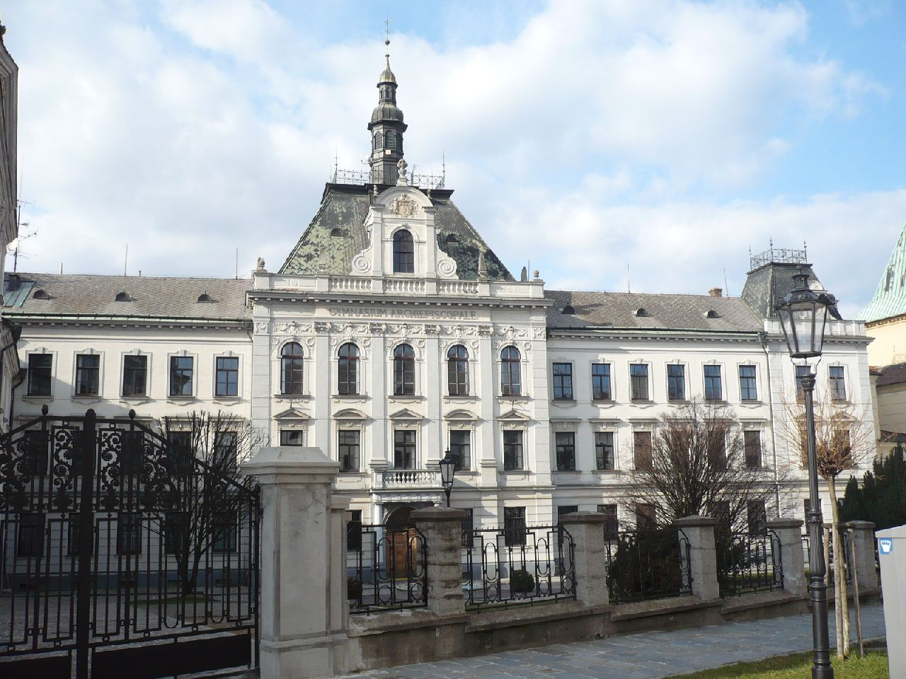 Kromeriz – Arcibishop Gymnasium